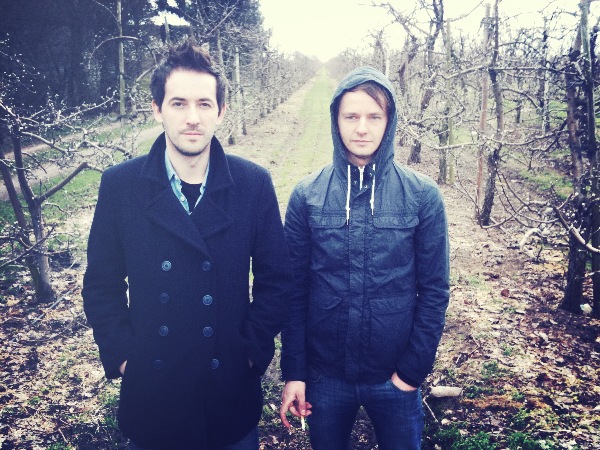 Photo of Twilite (the band)